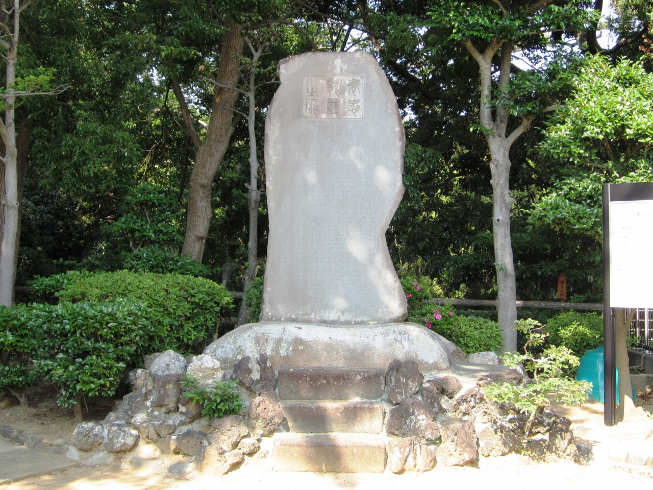 The monument of Honda Tadazane in Hamamatsu, Shizuoka.